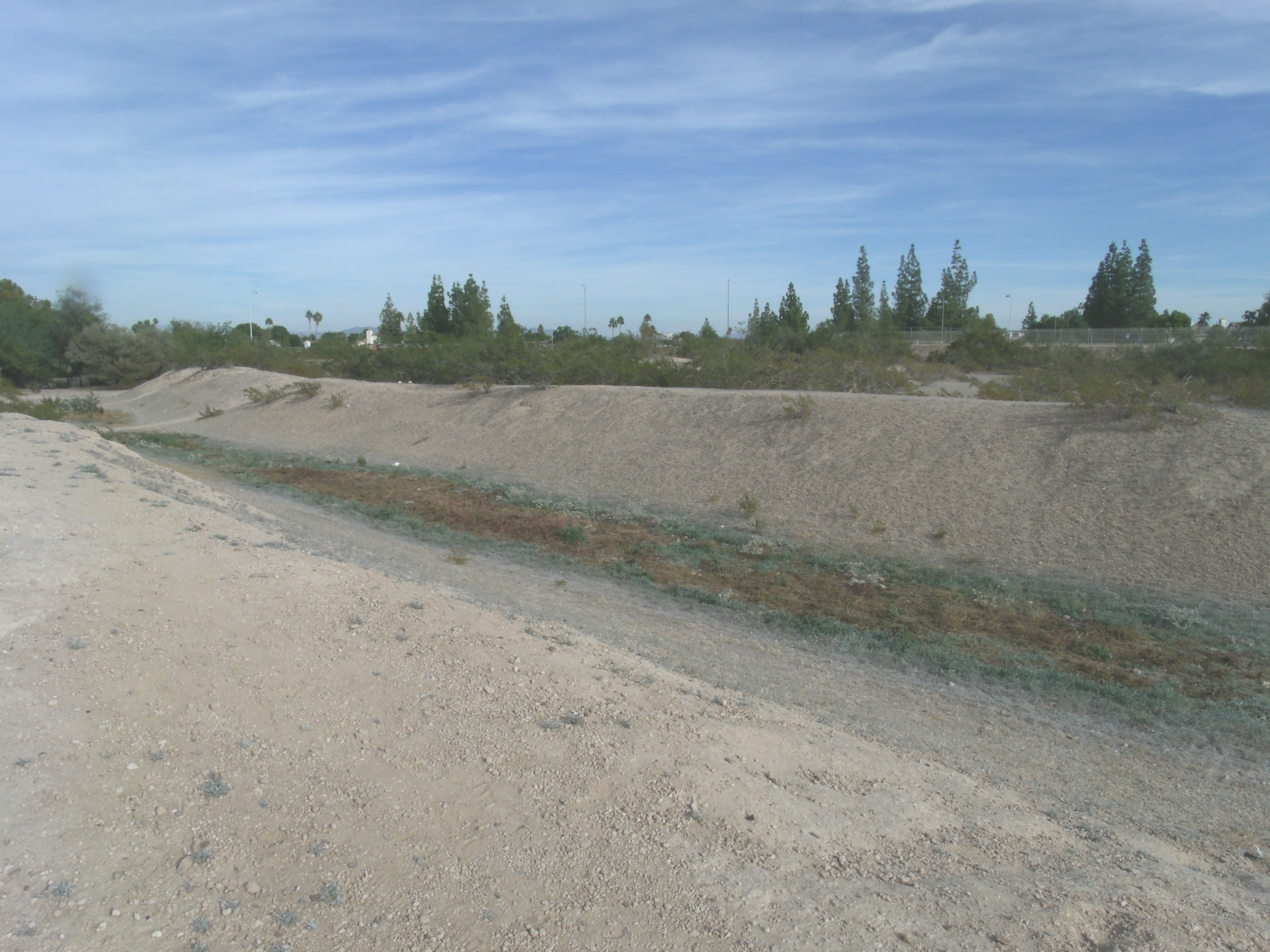 The historic Park of the Canals located in 1710 N. Horne Av. In Mesa, Az. This is an ancient Hohokam canal cleaned out by the Mormon pioneers in 1875. It was listed in the National Register of Historic Places on May 30, 1975, reference number 75000350.